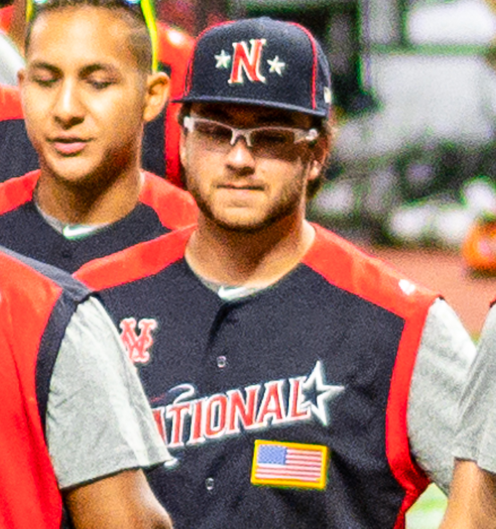 Ken Griffey, Jr., Anthony Kay and others at the 2019 All-Star Futures Game at Progressive Field in Cleveland